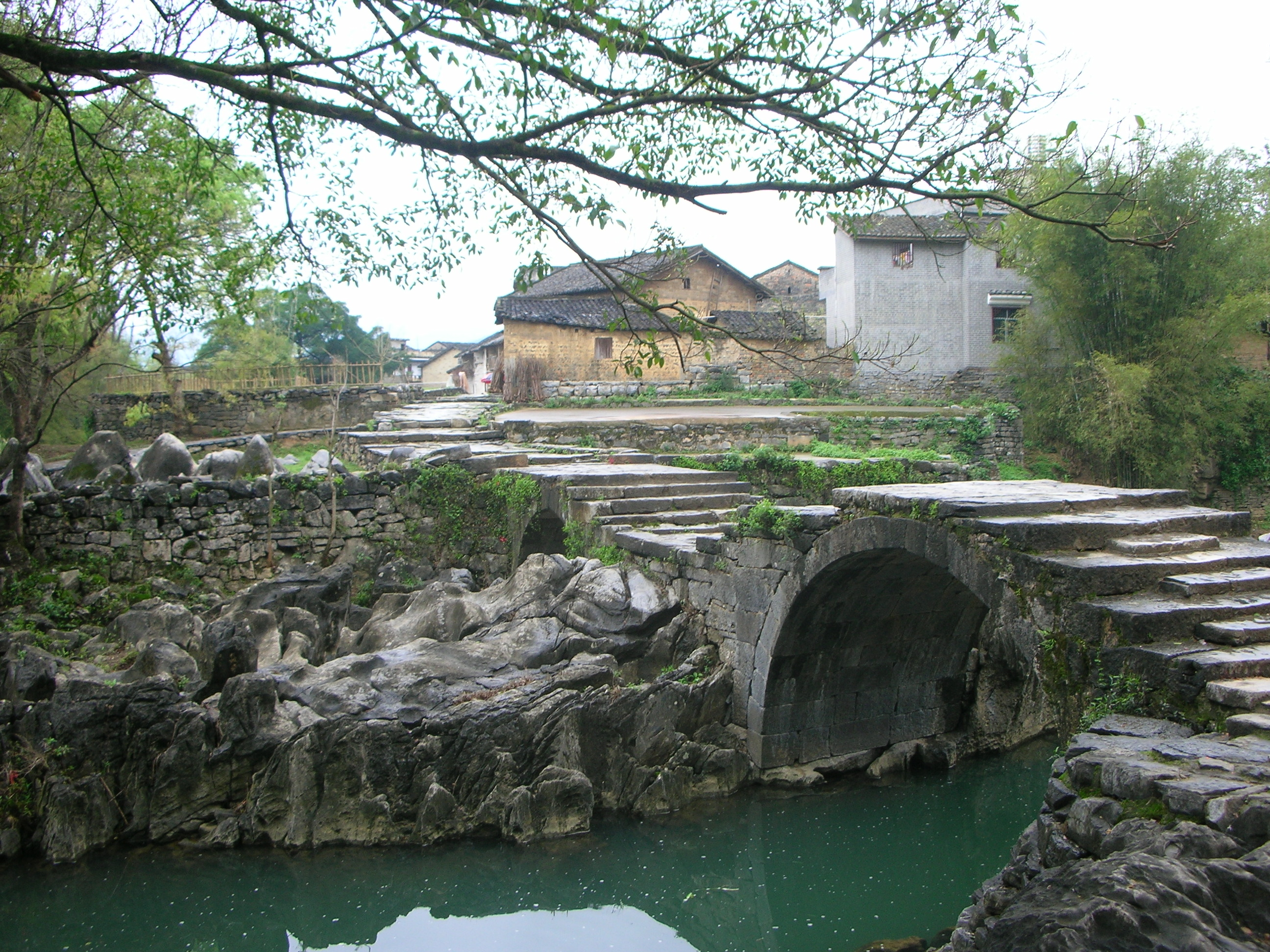 View of stone bridge in Huangyao in Guangxi